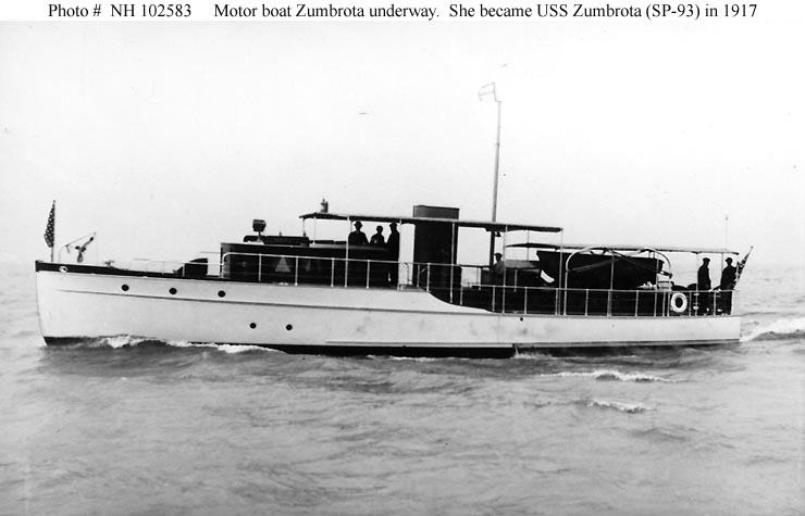 Patrol vessel USS Zumbrota (YP-93) as a private motorboat before her 1917 acquisition by the U.S. Navy